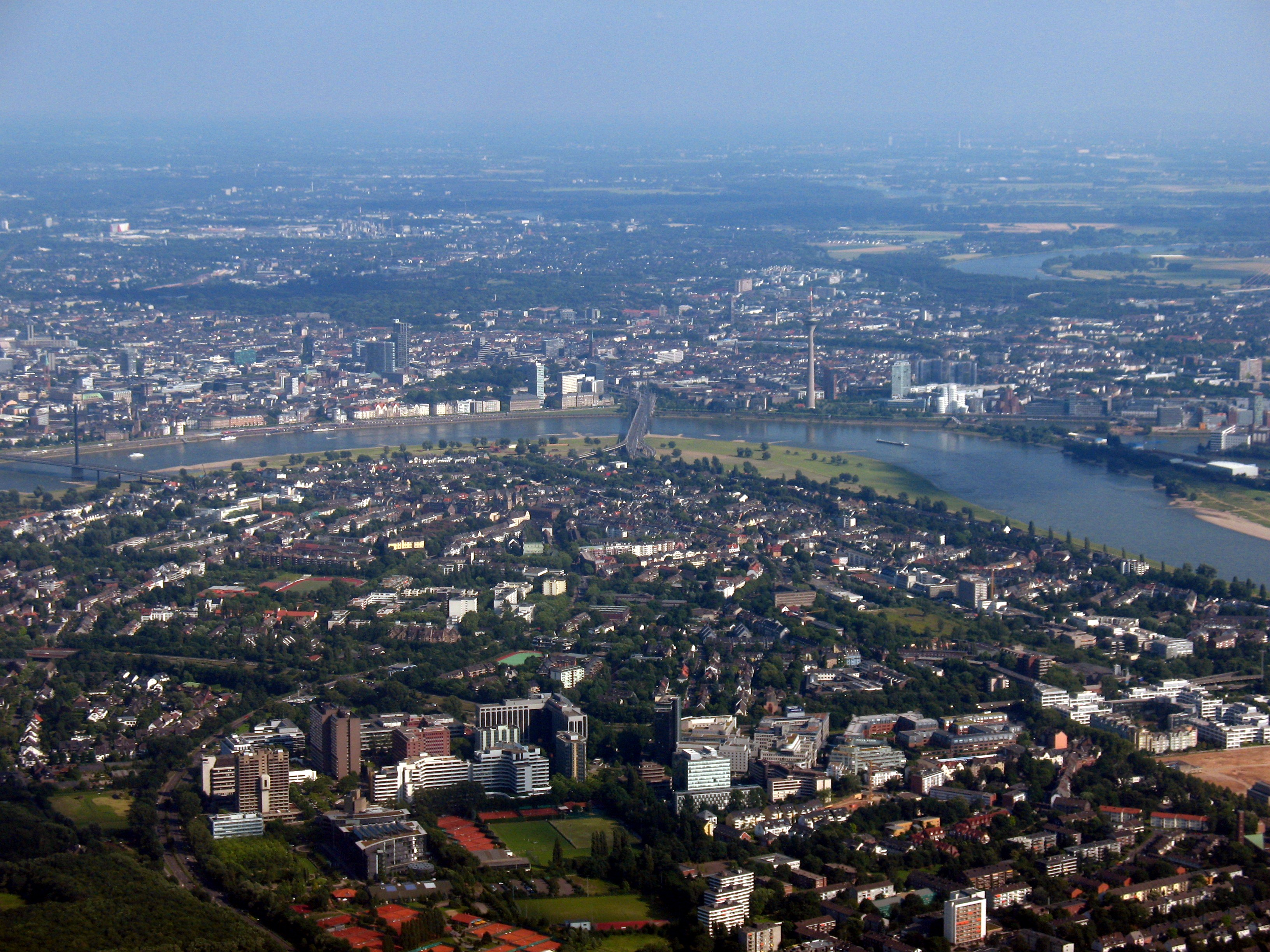 Aereal view of Dusseldorf City (Germany). Taken in June of 2008